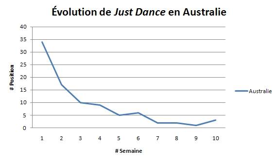 Evolution of Just Dance in australian charts.